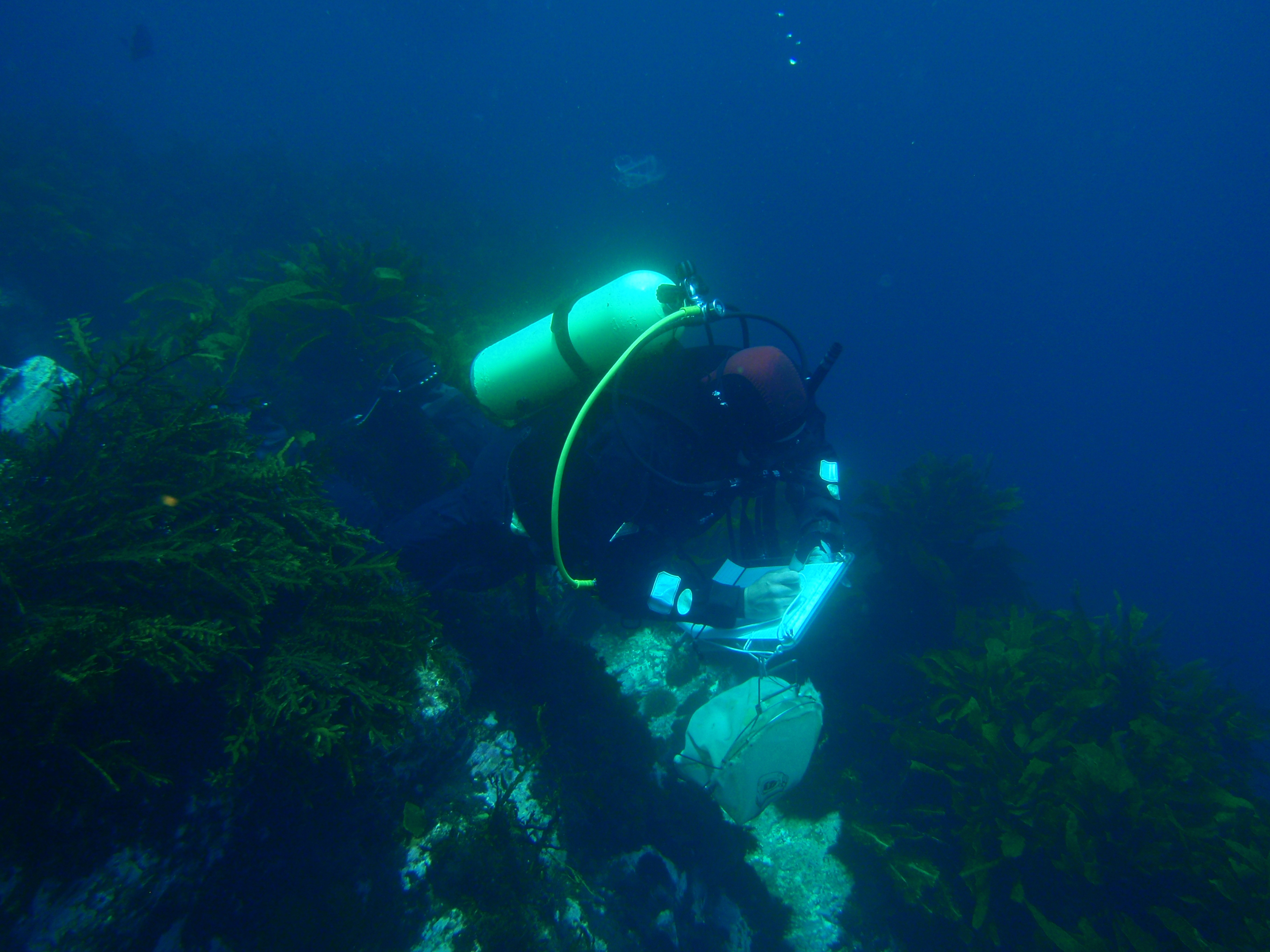 Diver swimming a transect for Reef Life Survey, Mayor Island, New Zealand, 2012